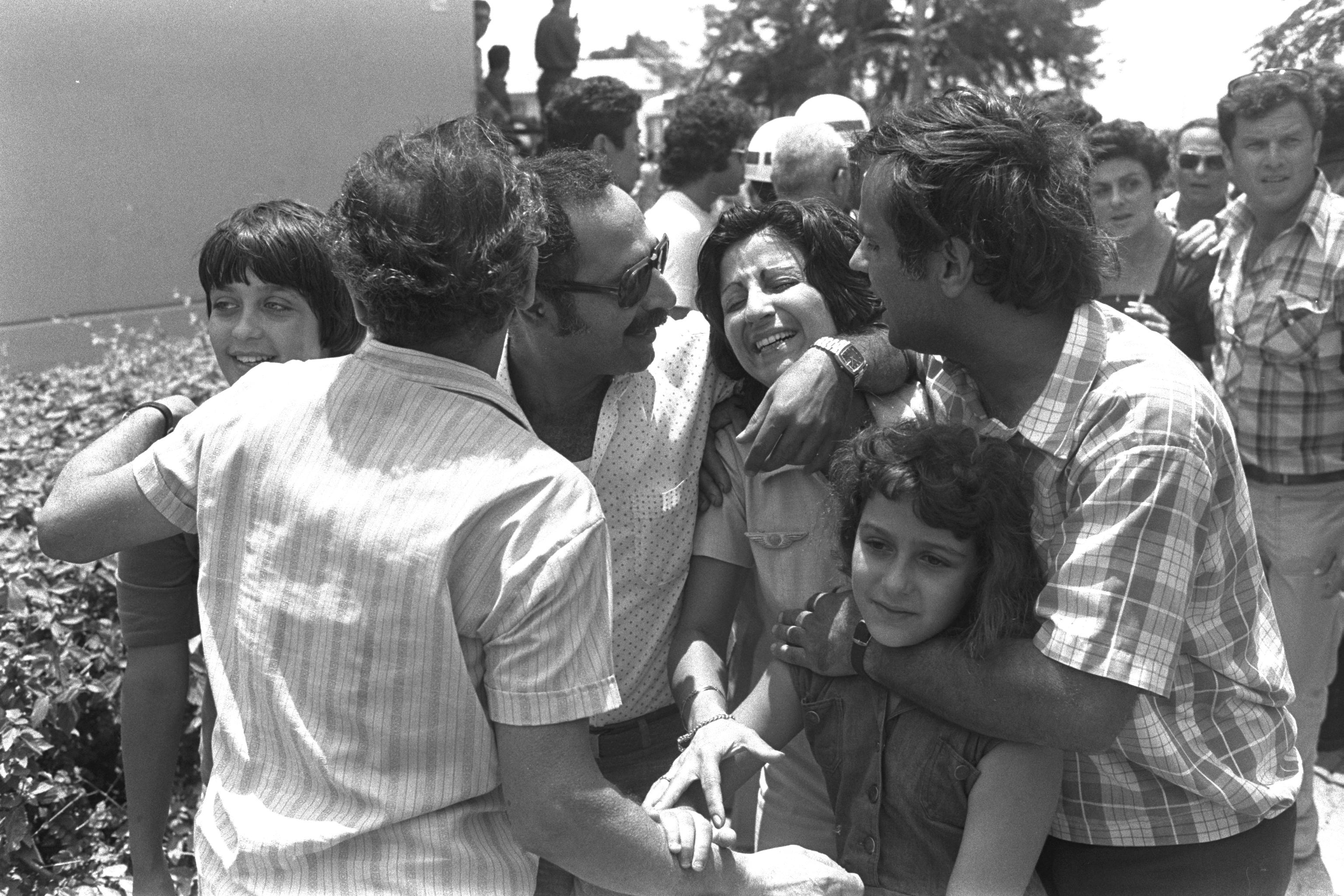 A reunion of a hijack victim and family. איחוד מרגש של קורבנות חטיפת המטוס Photo: Yaakov Saar (1951–) Alternative names SA'AR YA'ACOV; Jacob Saar; Saʻar, YaʻaḳovDescriptionIsraeli photographerDate of birth 1951 Authority control : Q28751896 VIAF: 298161188 NLI: 001394176 creator QS:P170,Q28751896 , 07/04/1976